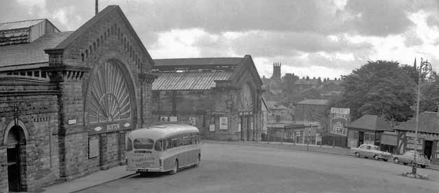 Buxton Stations, entrance. View SE in Palace Road, of the Paxton-inspired gable ends of the two termini. The nearer of the adjoining stations was the ex-London & North Western terminus of the line from Manchester (London Road) via Stockport, also that from Ashbourne closed 1/11/54. The other was the terminus of the ex-Midland line from Millers Dale, closed 6/3/67.